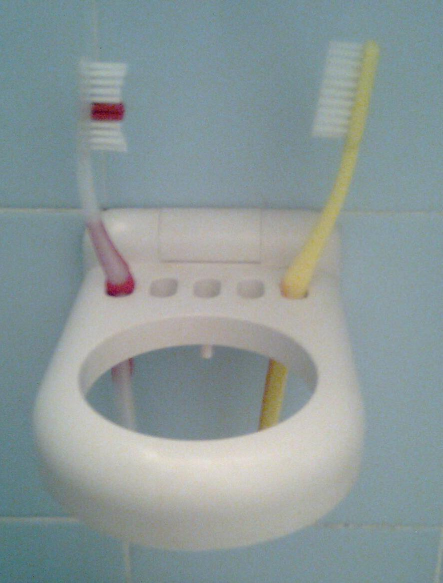 Toothbrush holder with two Toothbrushes